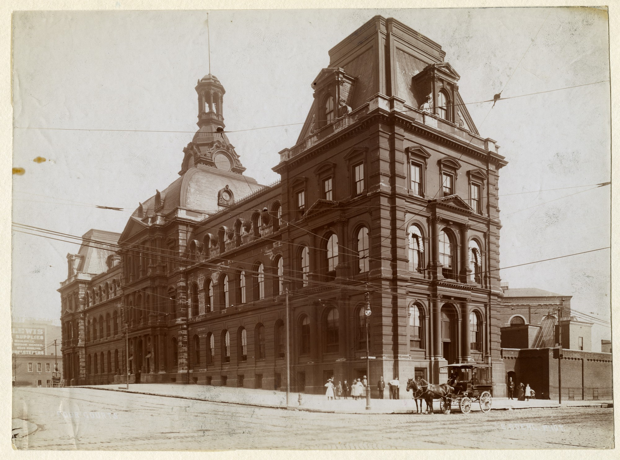 The Four Courts building in St. Louis (1907)